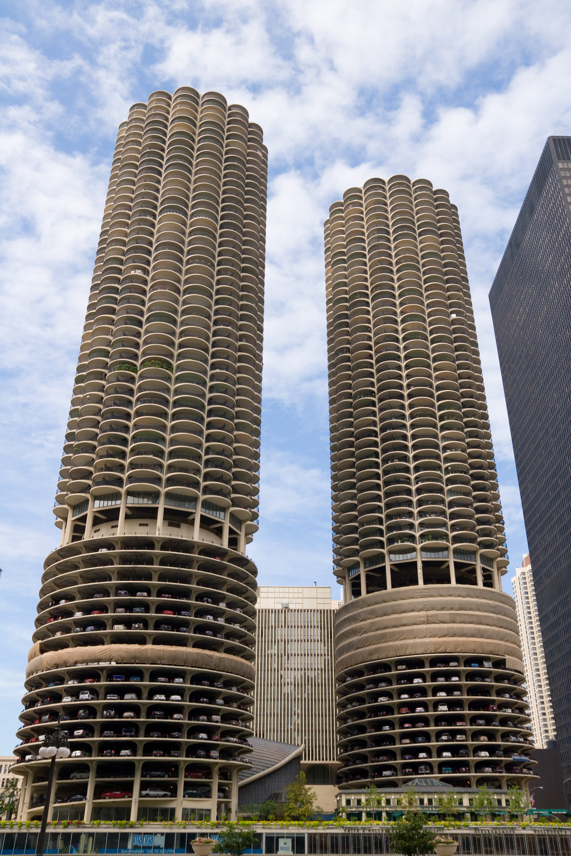 Marina City towers in Chicago, Illinois. Photograph taken with a Canon EOS 20D.